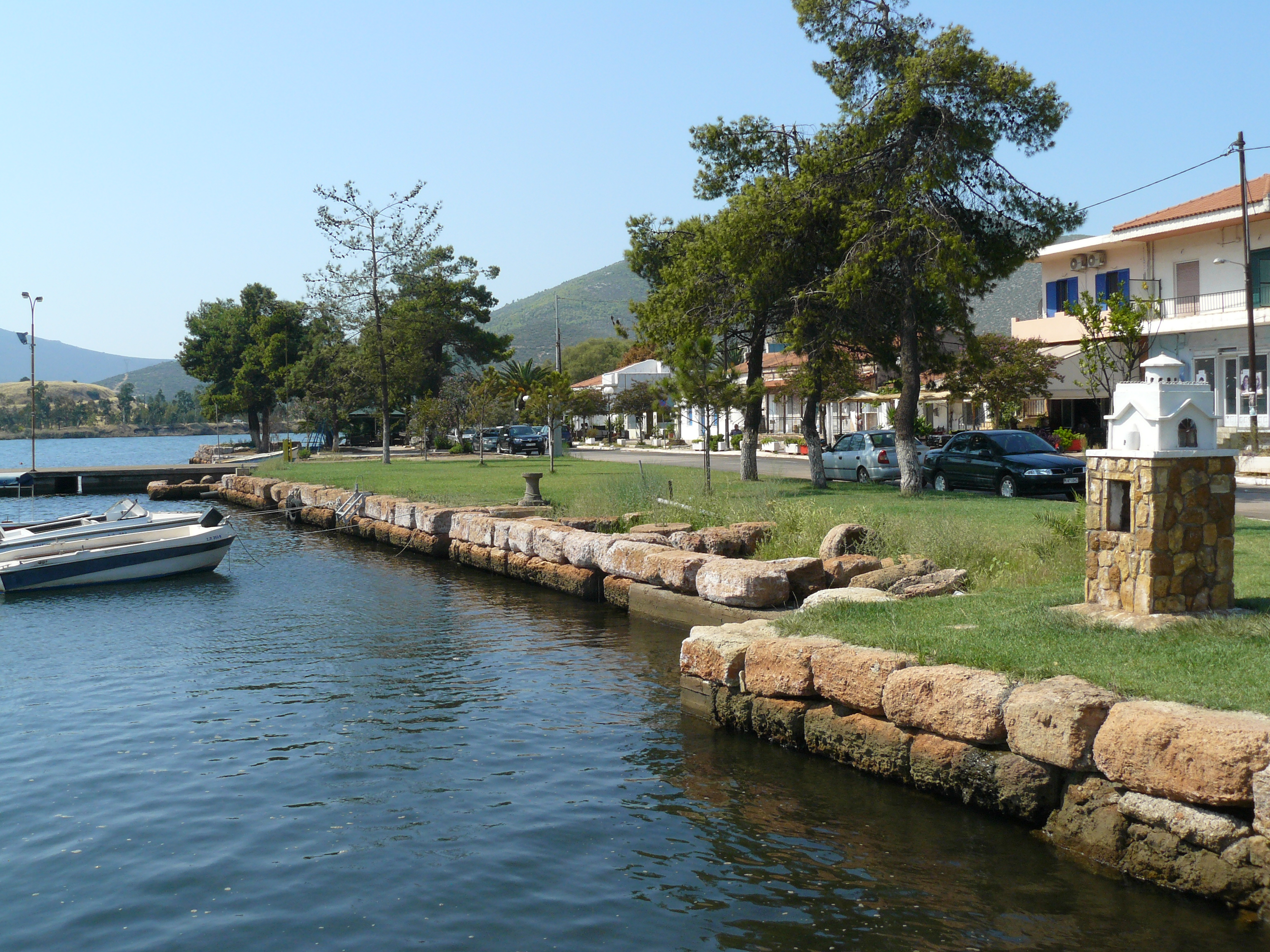 Larymna, Fthiotis, Greece: Ancient mole of the east harbor.